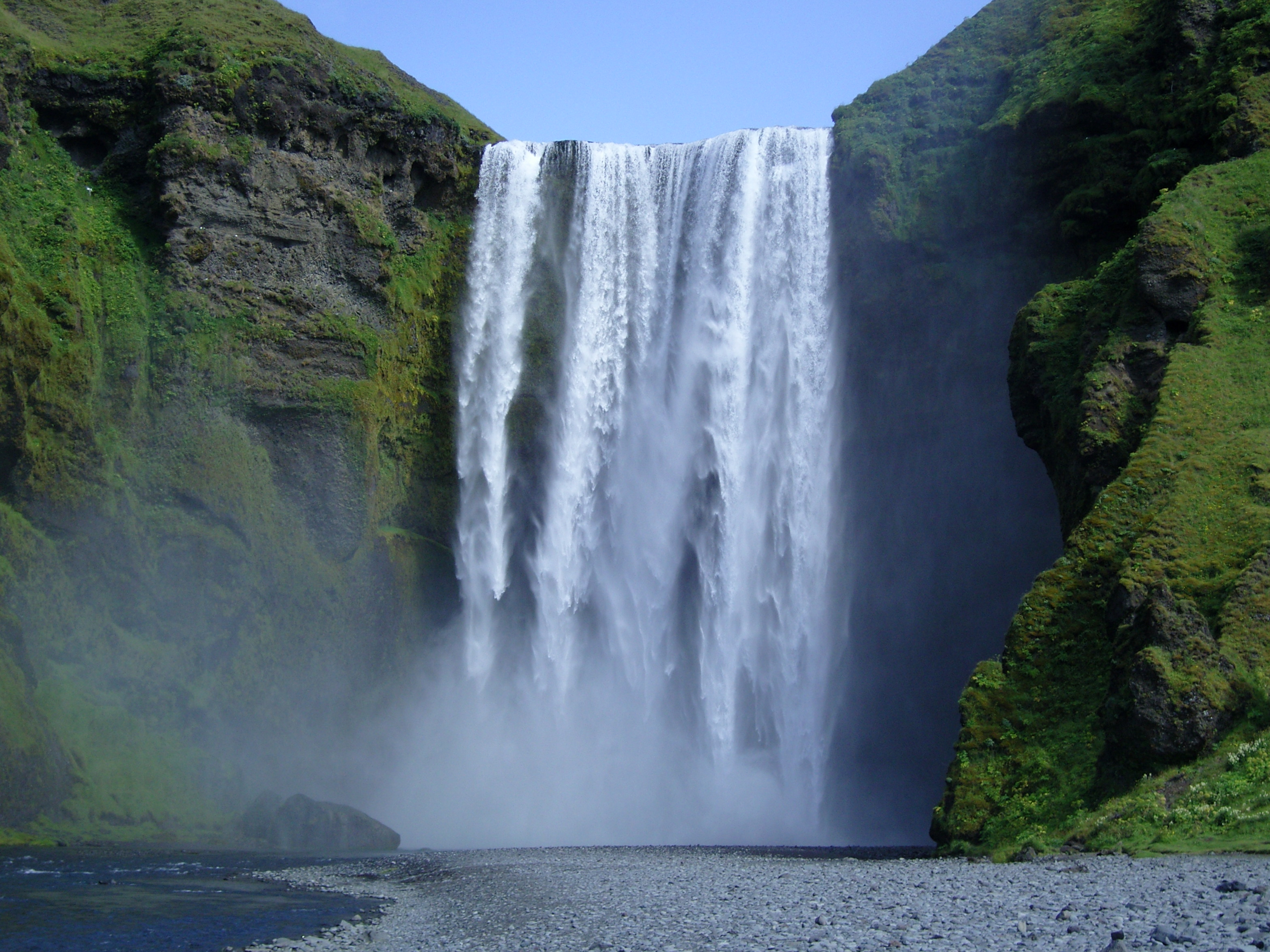 Skogafoss waterfwall, about 5 miles inland from Iceland's southern coast.